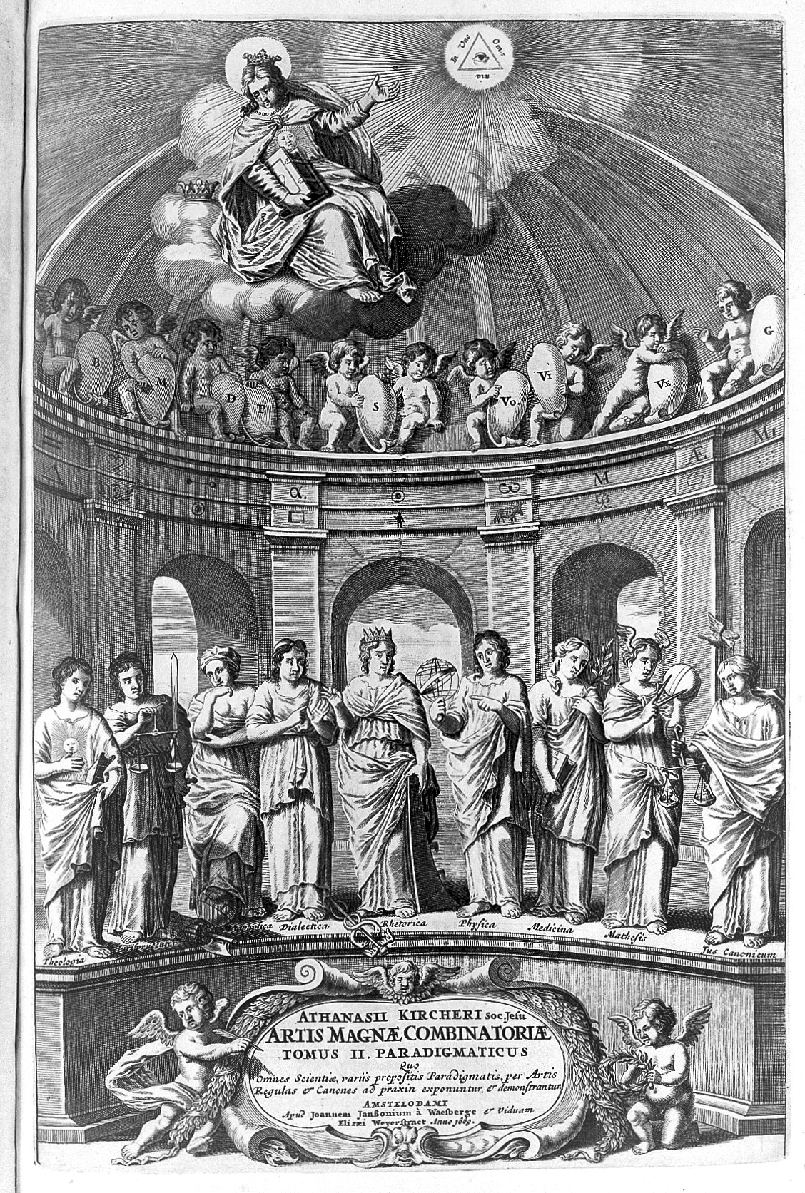 Rare Books Keywords: Athanasius Kircher